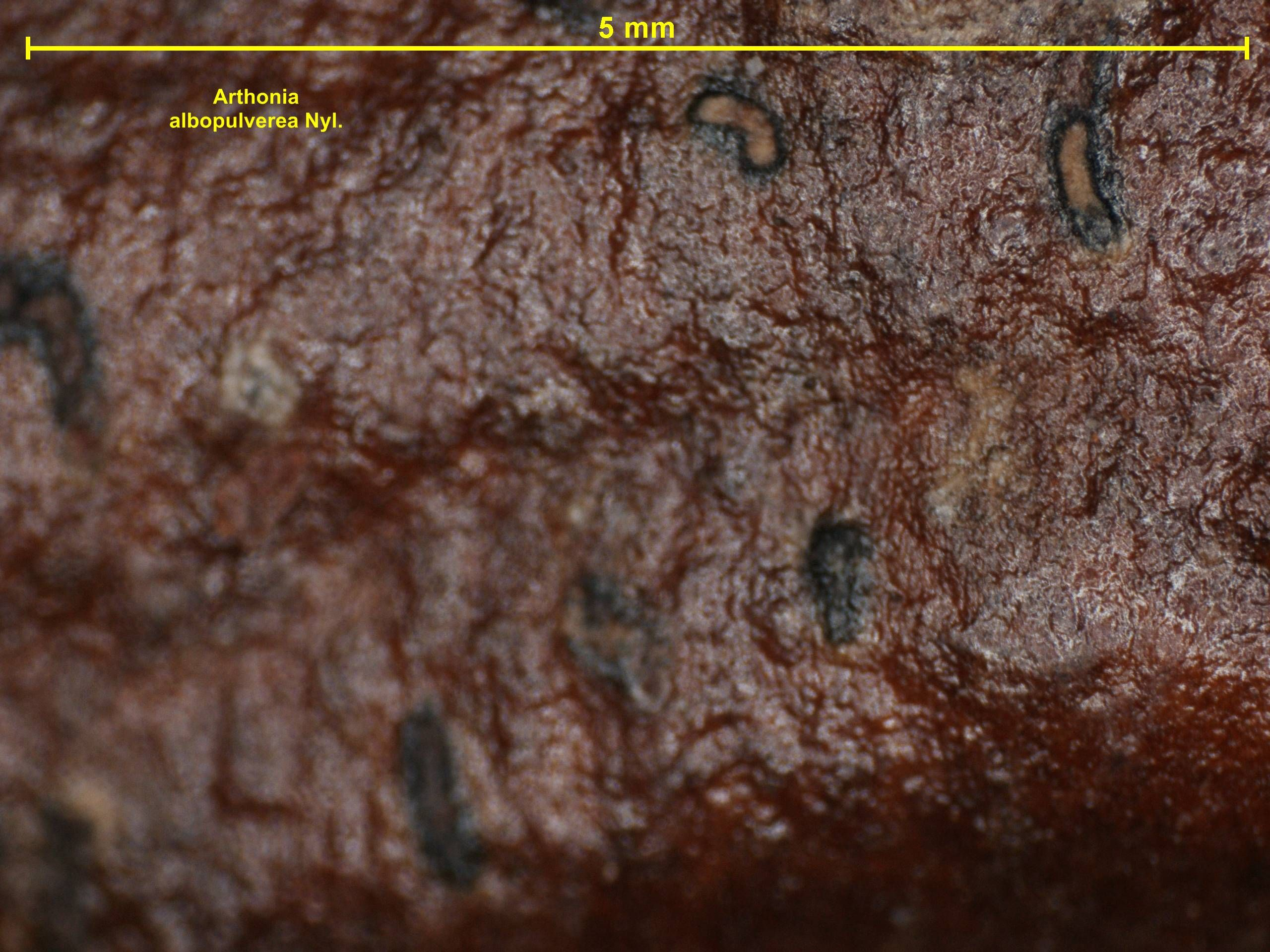 © Smithsonian Institution, National Museum of Natural History, Department of Botany